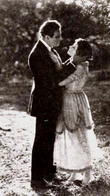 Still from the American drama film In the Heart of a Fool with James Kirkwood and Mary Thurman, on page 61 of the September 11, 1920 Exhibitors Herald.